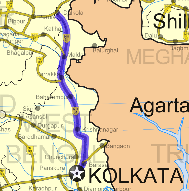 Map showing the national highway network in India. Includes NHDP projects upto phase IIIB which is due to be completed by December 2012. For actual progress of the NHDP refer to the maps below.